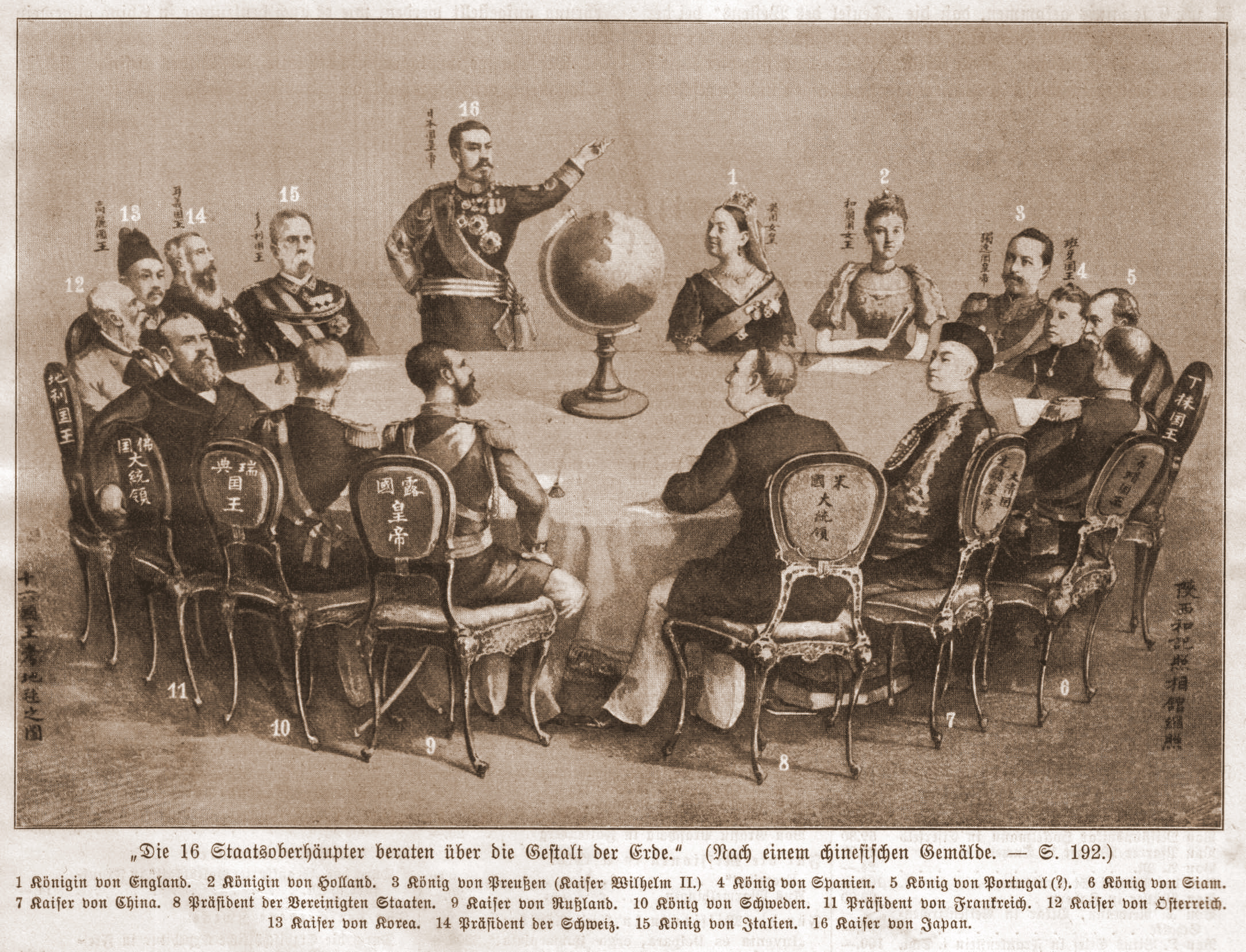 Emperors make plans about future of world. Photo of one Japanese contemporary painting.